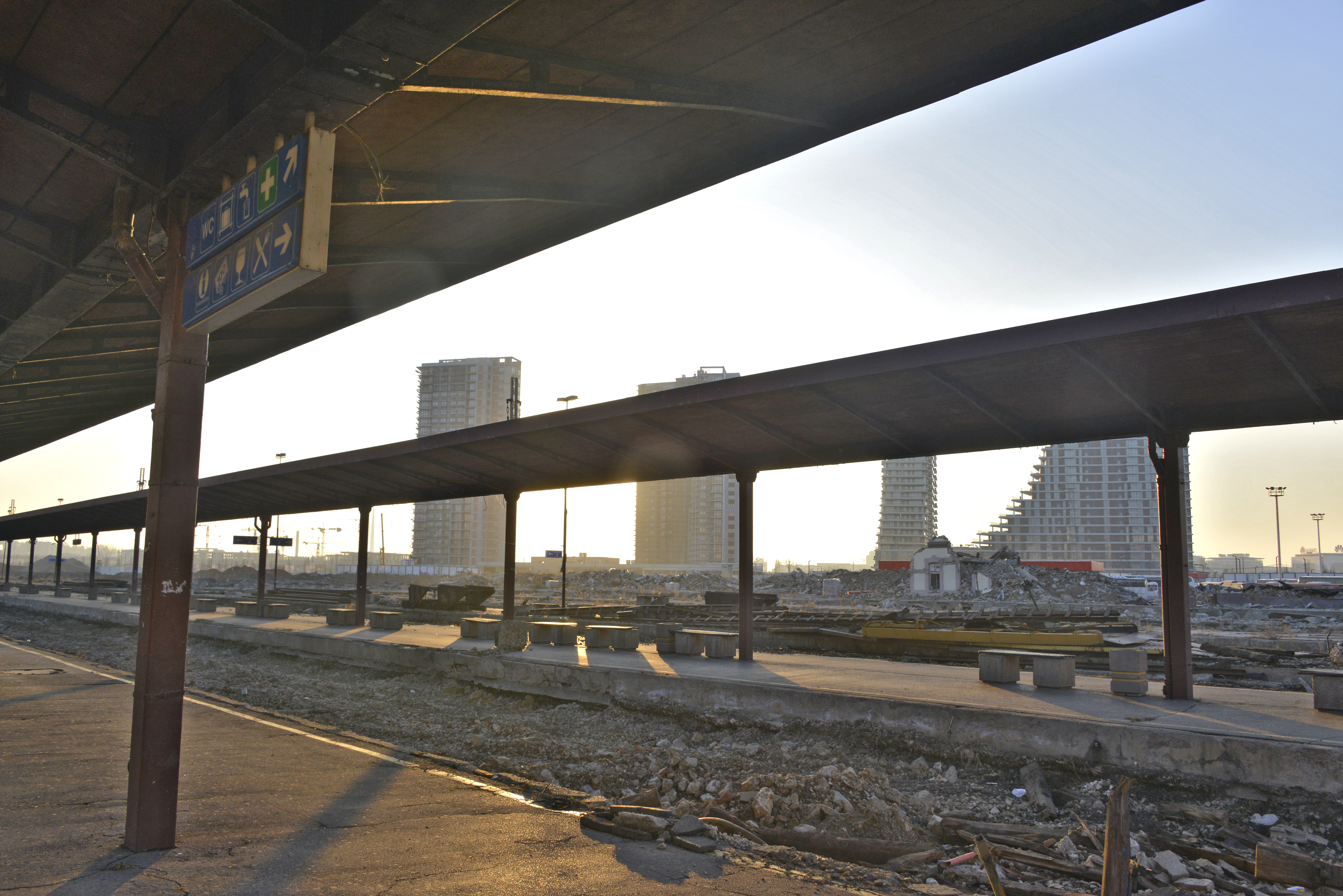 Belgrade Main railway station in 2019, after closing - Platforms